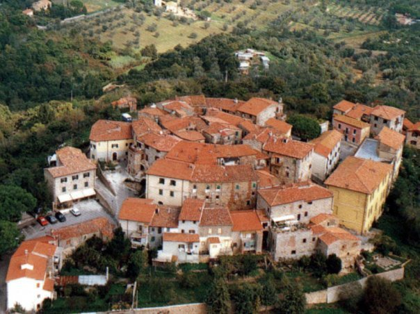 Ravi, Centro Storico, GR Tuscany(Italy)